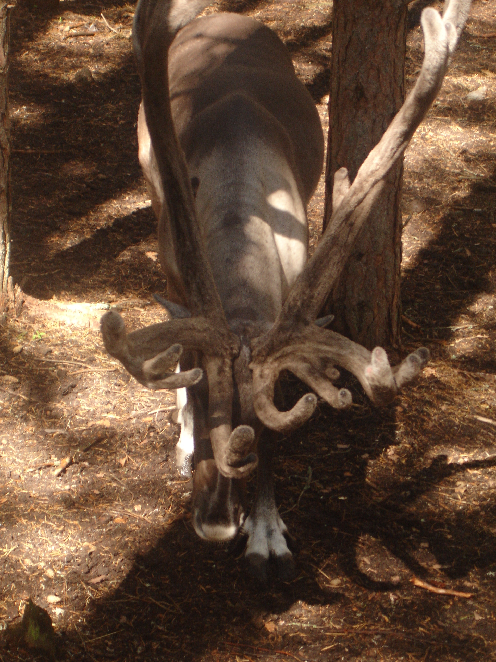 A reindeer from Järvzoo, Ljusdal Municipality, Sweden.